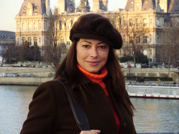 Vanessa Vholker